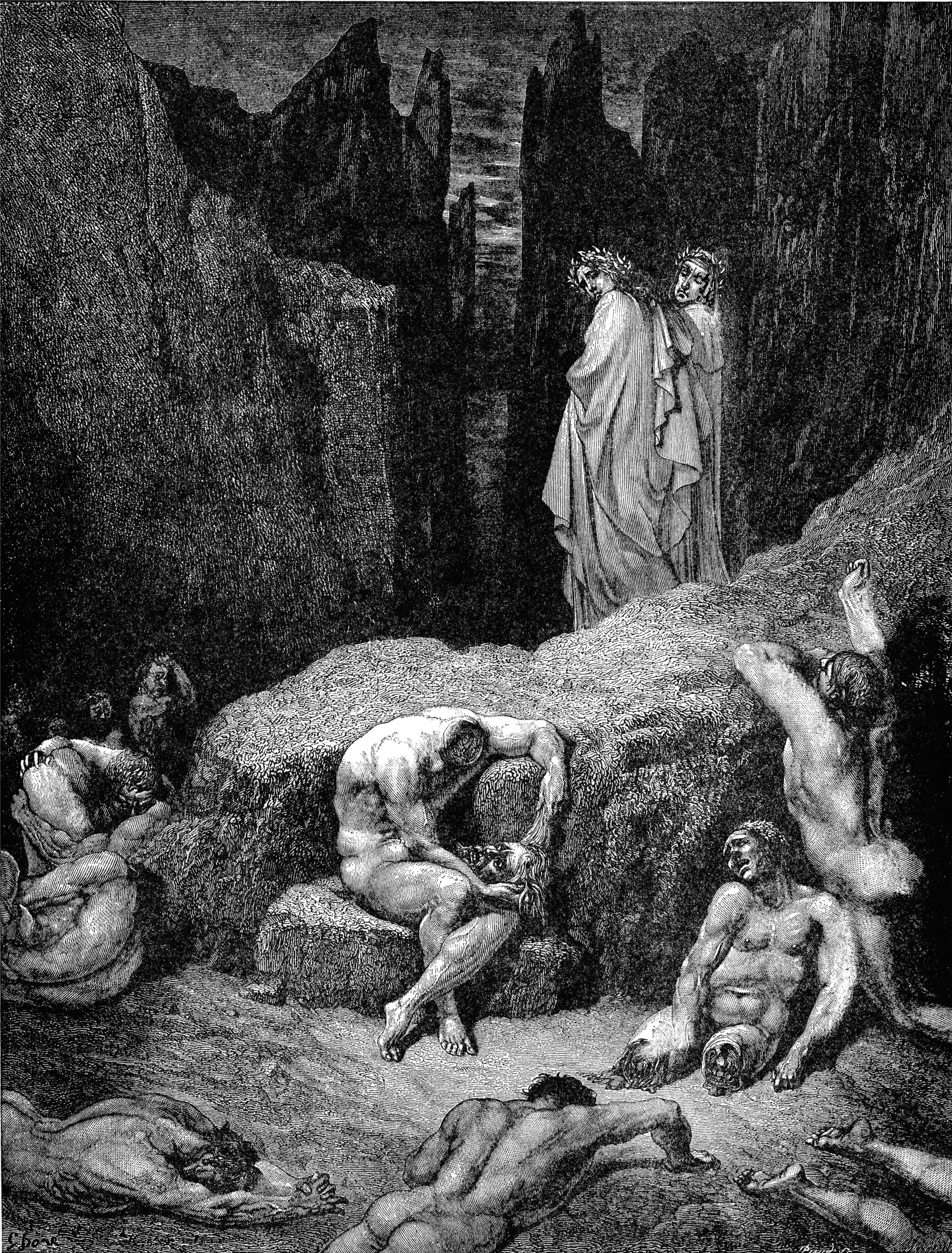 High resolution scan of engraving by Gustave Doré illustrating Canto XXVIX of Divine Comedy, Inferno, by Dante Alighieri. Caption: Virgil reproves Dante's Curiosity